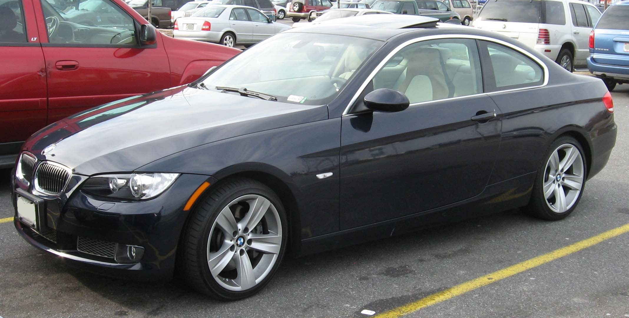 2007 BMW 335i photographed in USA.